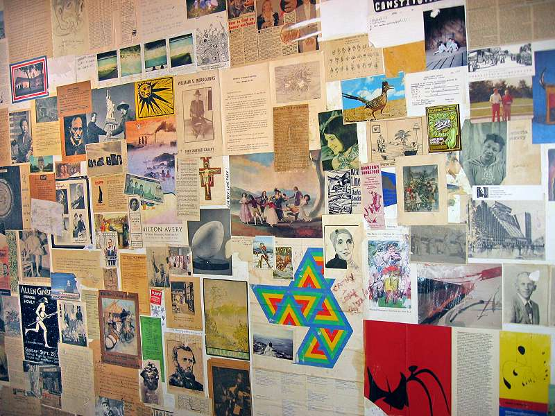 Interior bathroom wall at the Bookmill, Montague, Massachusetts. Taken by Daniel P. B. Smith, August, 2006. Copyright ©2006 by Daniel P. B. Smith and released under the GFDL. "Of the many quirks in the Montague Bookmill, a bookstore and cafe just outside Amherst and Northampton, perhaps the most serendipitous are on its bathroom walls. Hundreds of clippings and pinups vie for attention: 'Author Mailer's Wife Fighting For Her Life,' blares the headline of the yellowed New York Post article from 1960, above the subhead stating that Norman Mailer denies stabbing her in the back and abdomen with a pen knife. 'President Frank Zappa in 1992! The Only Sane Choice,' proclaims the poster directly above the toilet. Then there is the Star exclusive photo of Daryl Hannah's fake finger, Abbie Hoffman urging political activism in young people, and a Hungarian transportation map." Albernaz, Ami (2005), "Books, Board Games, Bliss—Pioneer Valley Bookstore Prides Itself on Quirks and Homespun Character. The Boston Globe, January 30, 2005, "Travel" section, p. M11